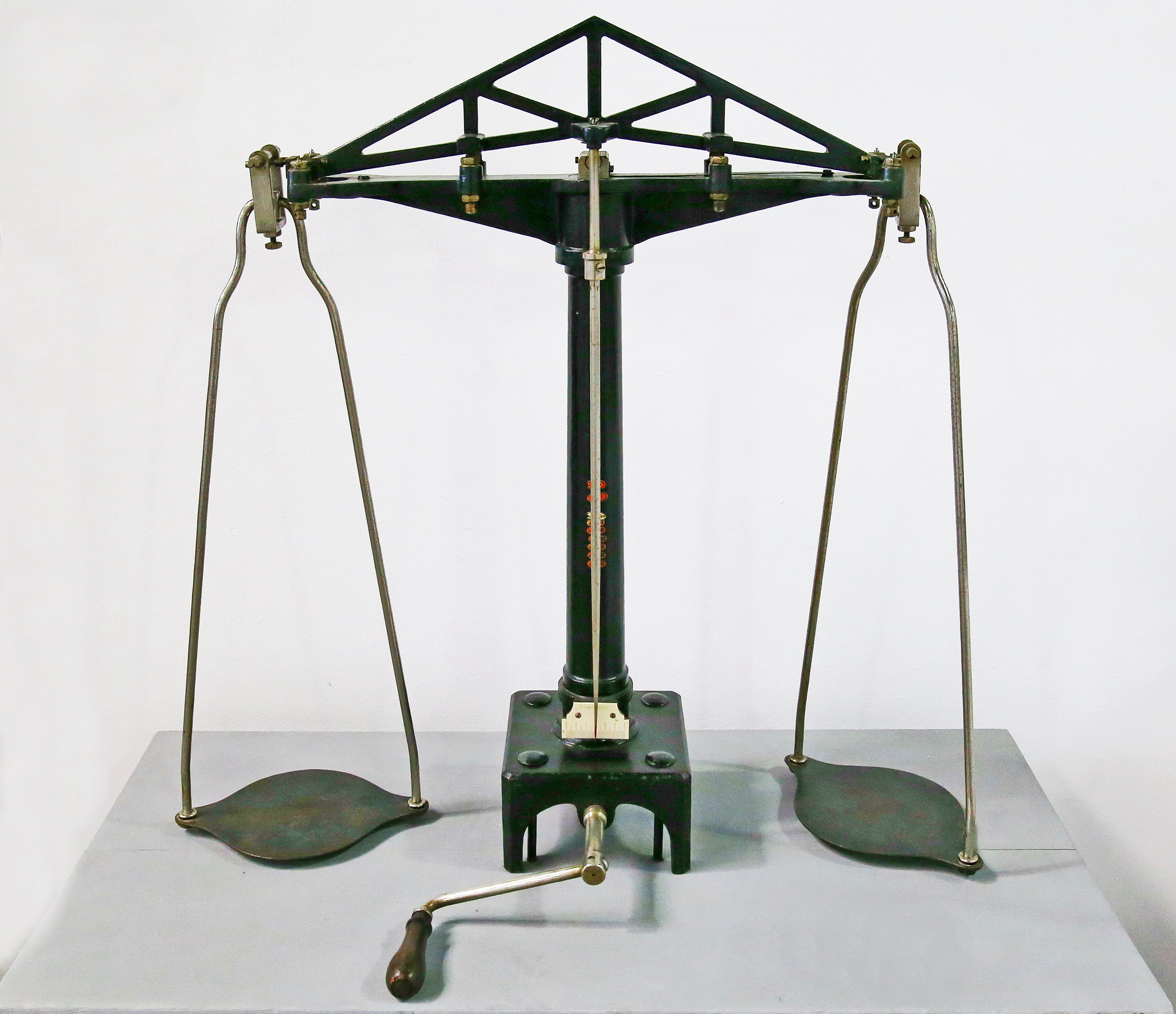 Scale. It is located in Museum of Science and Technology Belgrade.